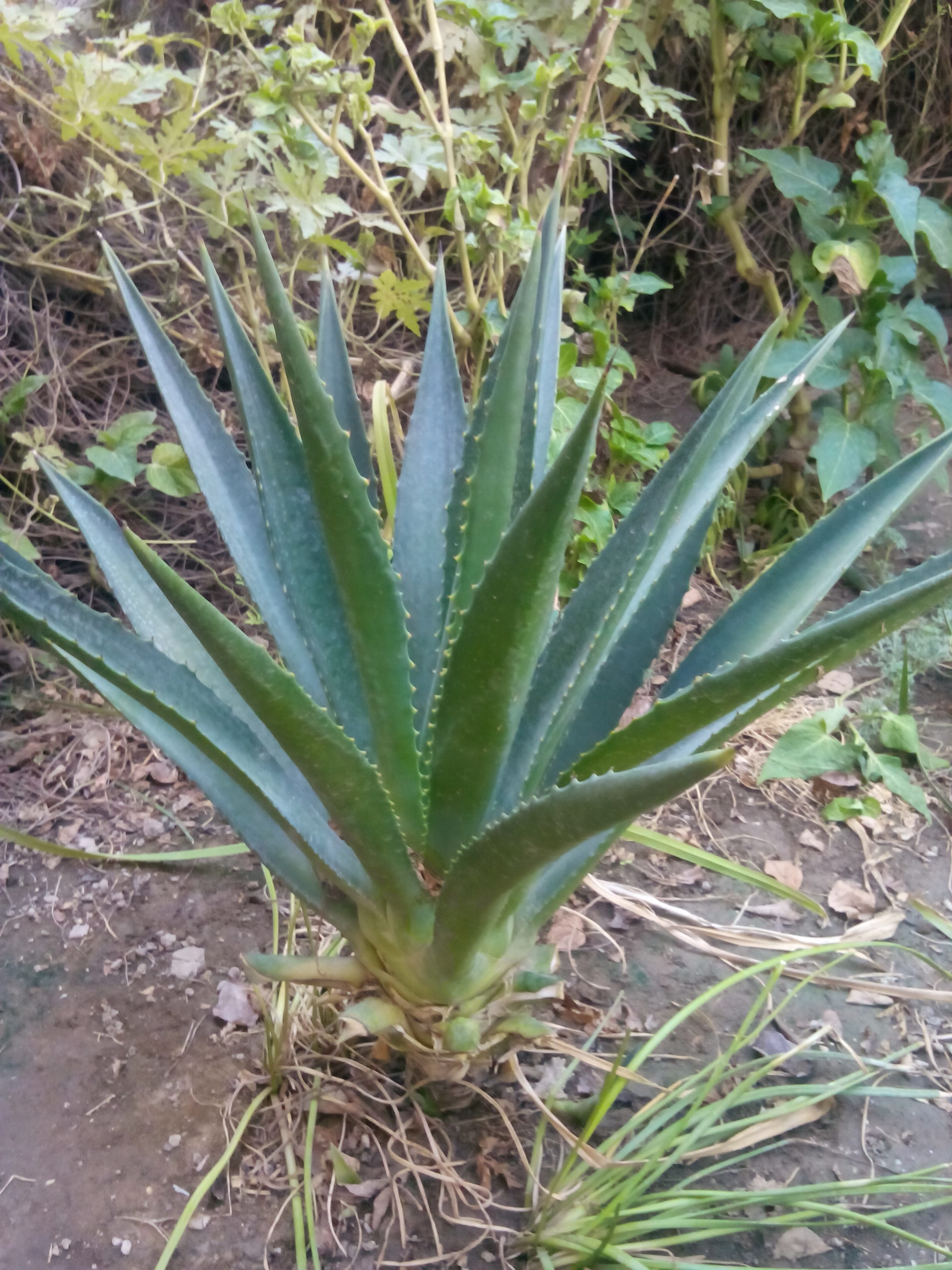 An Agave plant in the garden